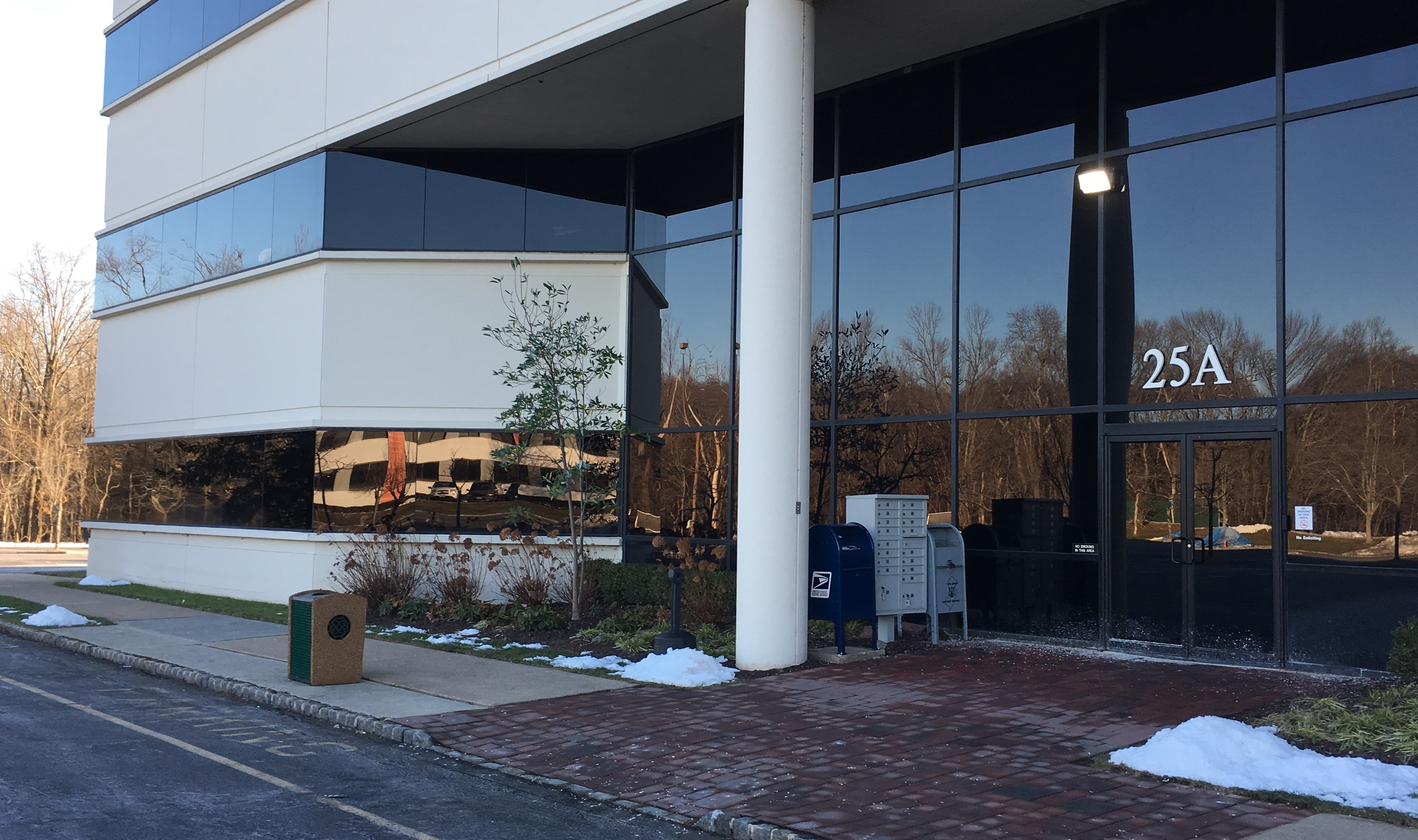 A suite on the first floor, and some lab space on the third floor, of the offices at 25A Vreeland Road, Florham Park, New Jersey, constituted the New Jersey office of The SCO Group during 2008–2011, UnXis during 2011–2013, and Xinuos during 2013–2015. (UnXis had purchased some of the assets of the SCO Group and then subsequently changed its name to Xinuos.)